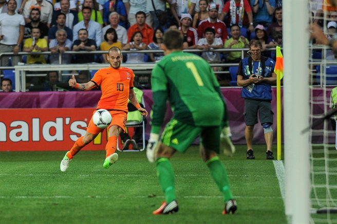 UEFA Euro 2012 match between Netherlands and Denmark that took place in Kharkiv. Final result was 0:1 (Krohn-Delhi)